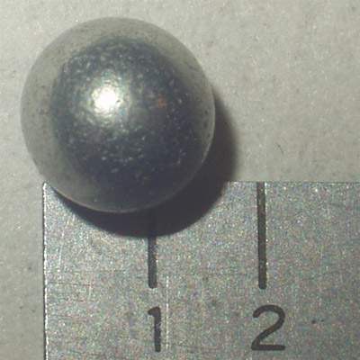 A .177 caliber BB. Scale is in 10ths of an inch.